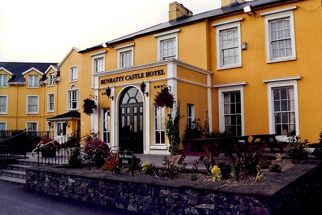 Bunratty - Bunratty Castle Hotel This hotel is located across the road from Bunratty Castle